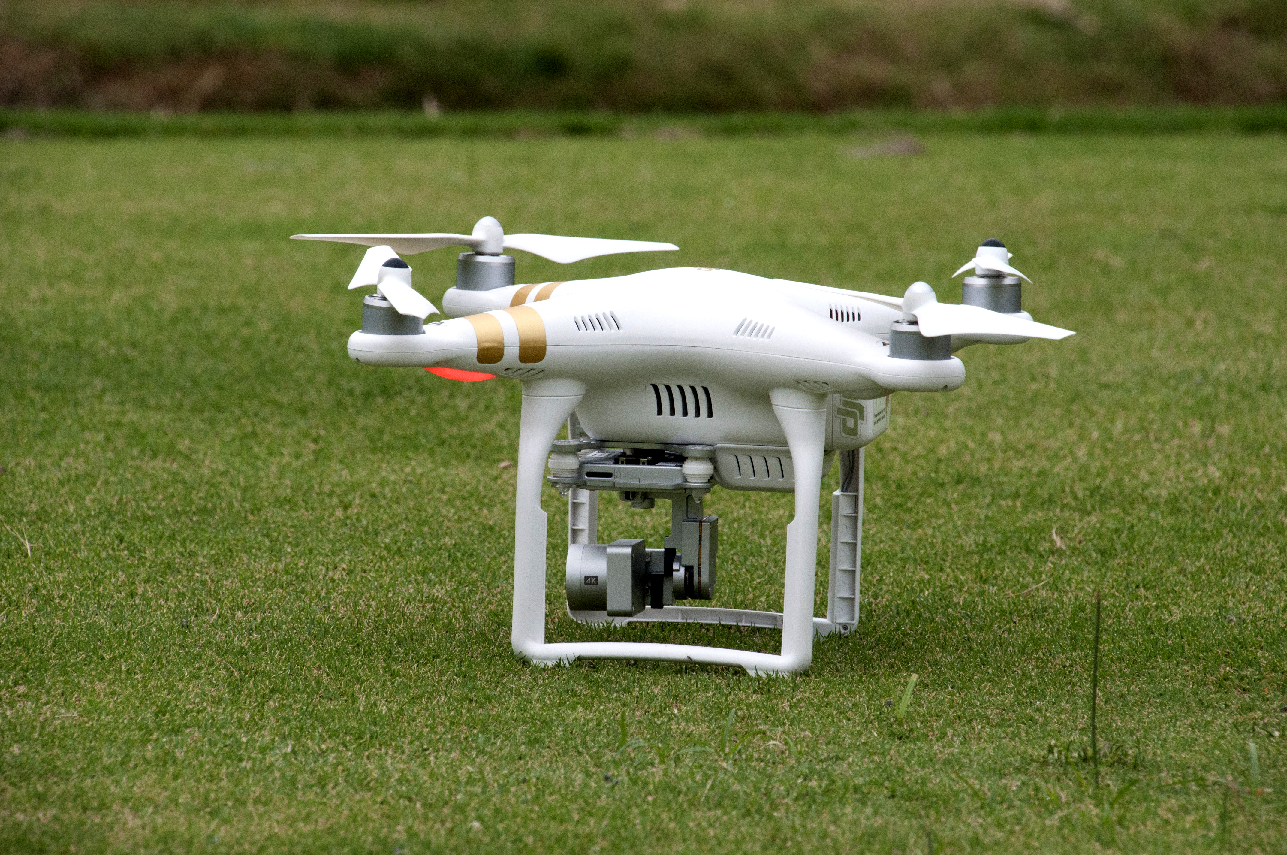 Villeta, Colombia